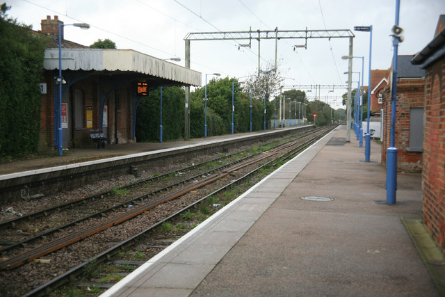 Looking towards Thorpe le Soken.